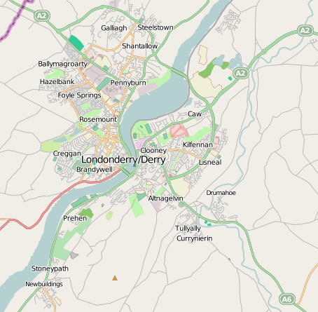 Openstreetmap rendered map of Derry/Londonderry This map of Londonderry was created from OpenStreetMap project data, collected by the community. This map may be incomplete, and may contain errors. Don't rely solely on it for navigation.